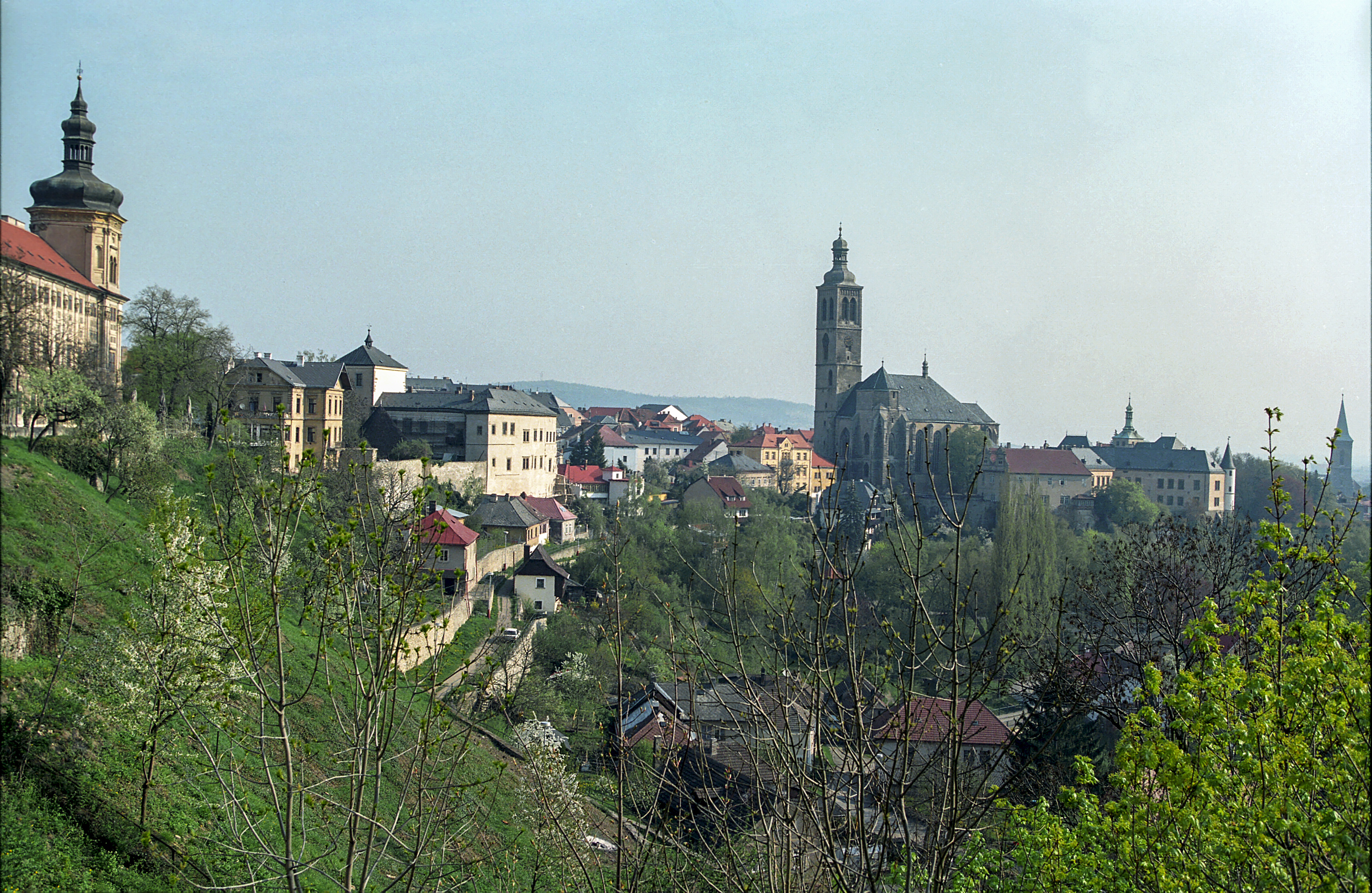 View of Kutná Hora: Jesuit College and St James Church